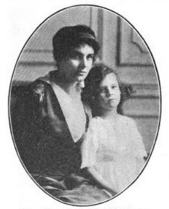 Vira Boarman Whitehouse, in her suffrage days, from a 1921 publication.